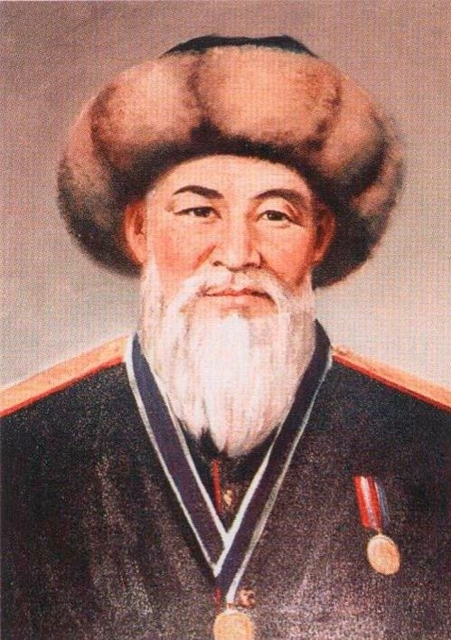 Baitik Kanaev